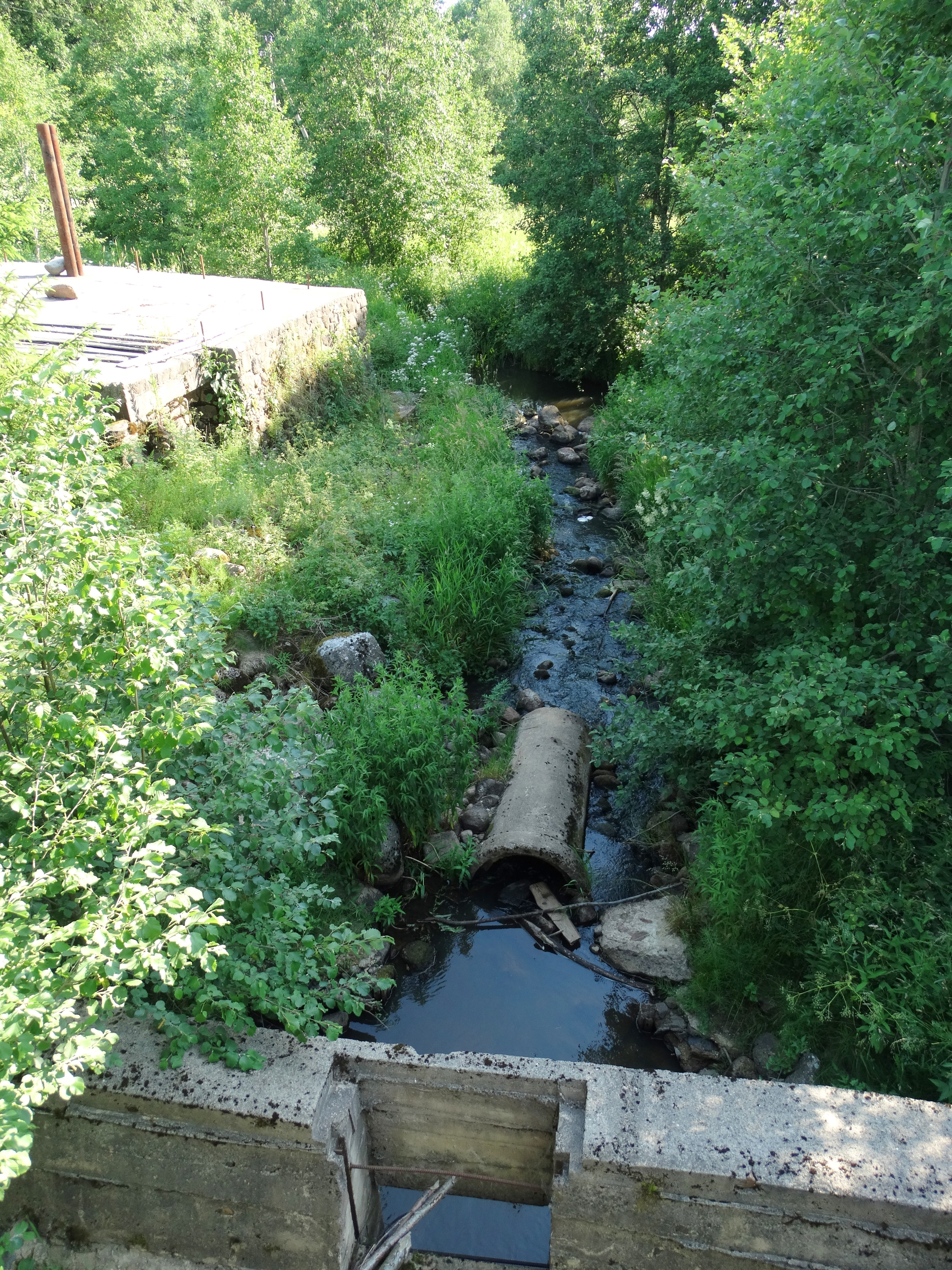 Vilka River, tributary of Minija, Plungė district, Lithuania